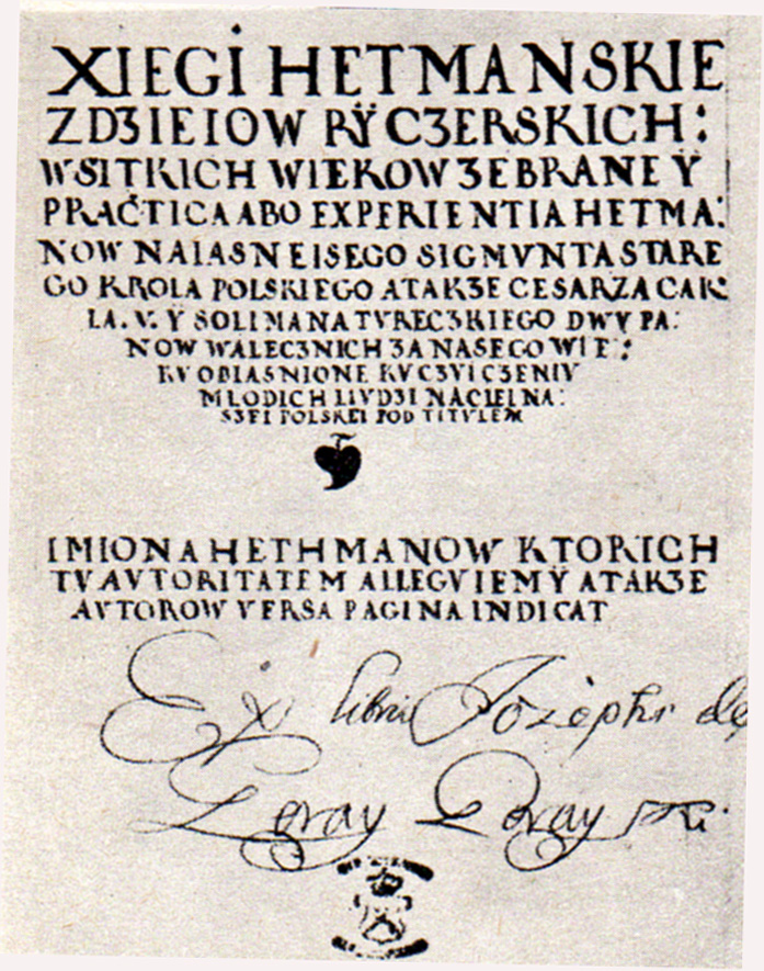 Book of Hetmans of Poland (Manuscript)